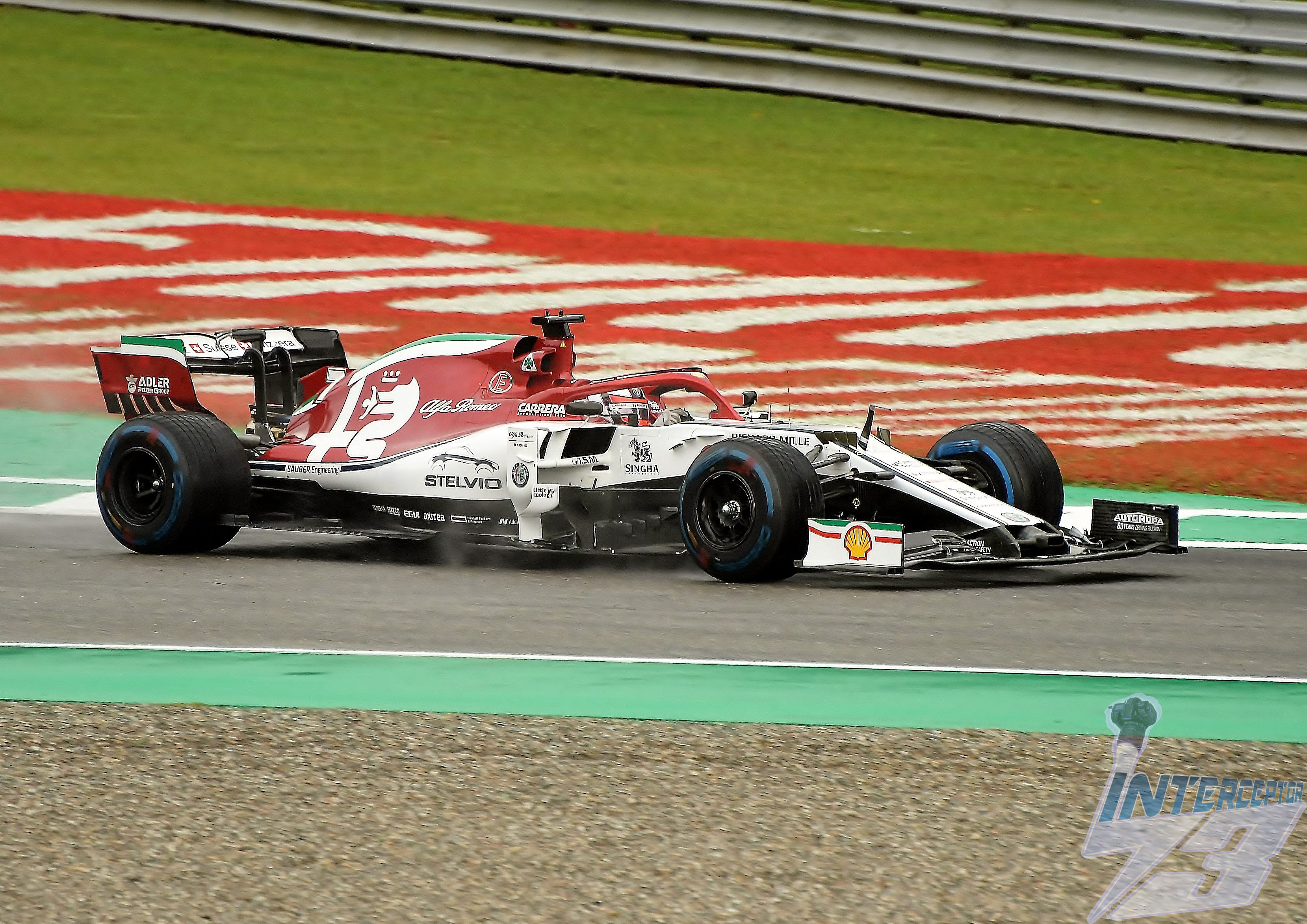 Kimi Raikkonen, Alfa Romeo-Ferrari C38, 2019 Italian Grand Prix, Monza, 6th September